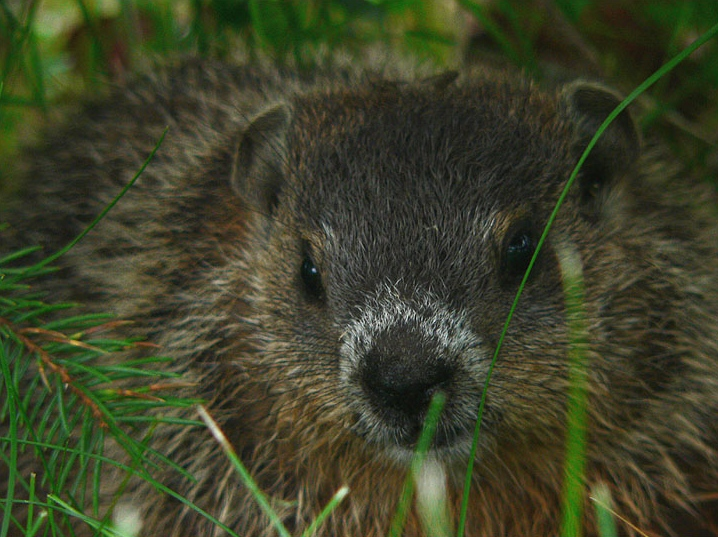 A photo I took of a baby groundhog in my front yard underneath a pine tree. For more of my photos, visit my website at